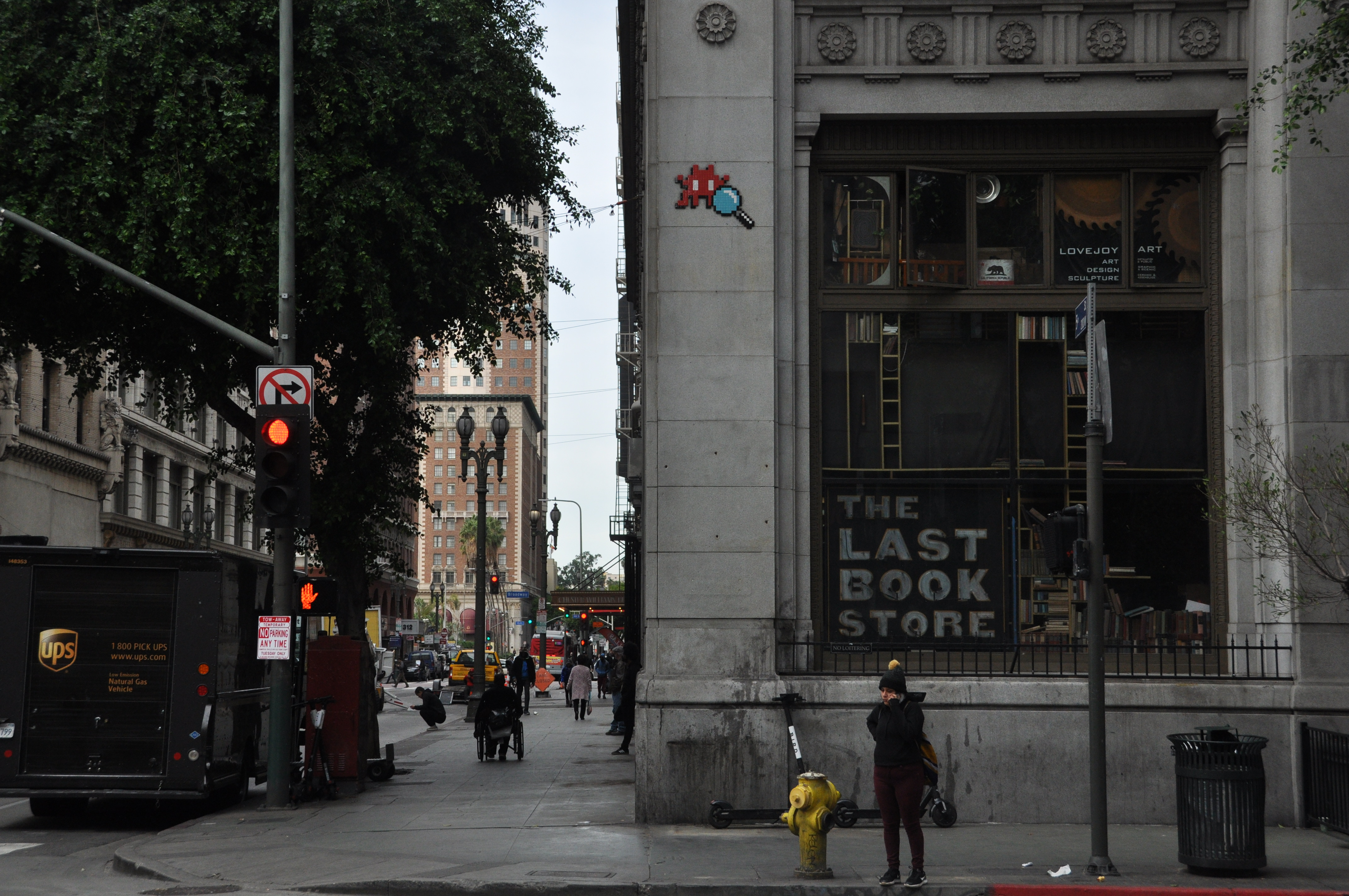 Graffiti on the wall of The Last Bookstore, in Downtown Los Angeles